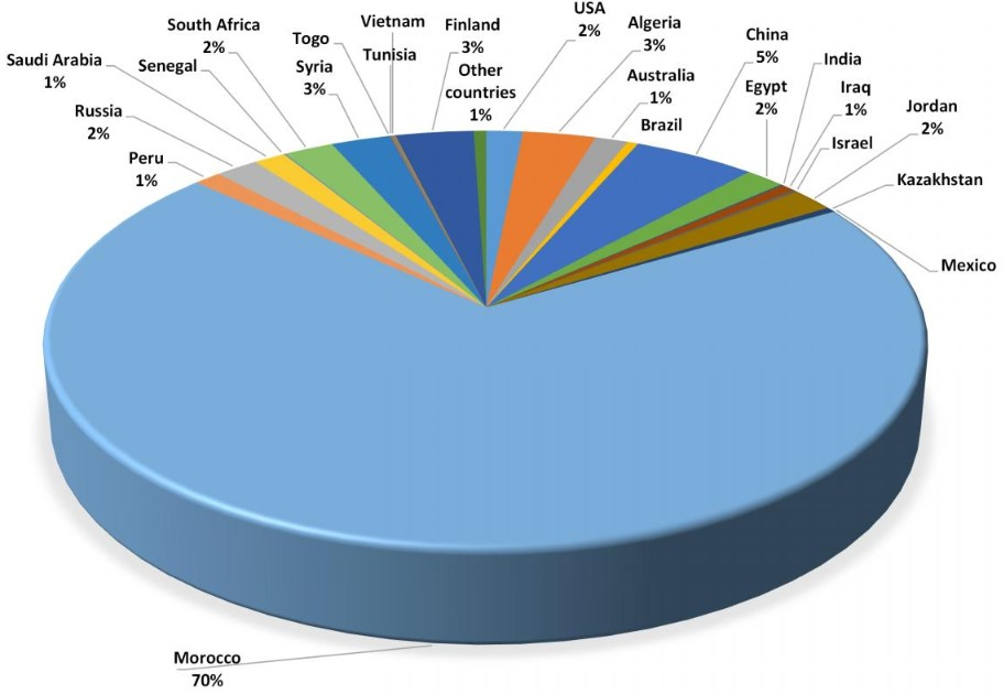 generated in Excel using the data from USGS and Finnish geological survey (2016)